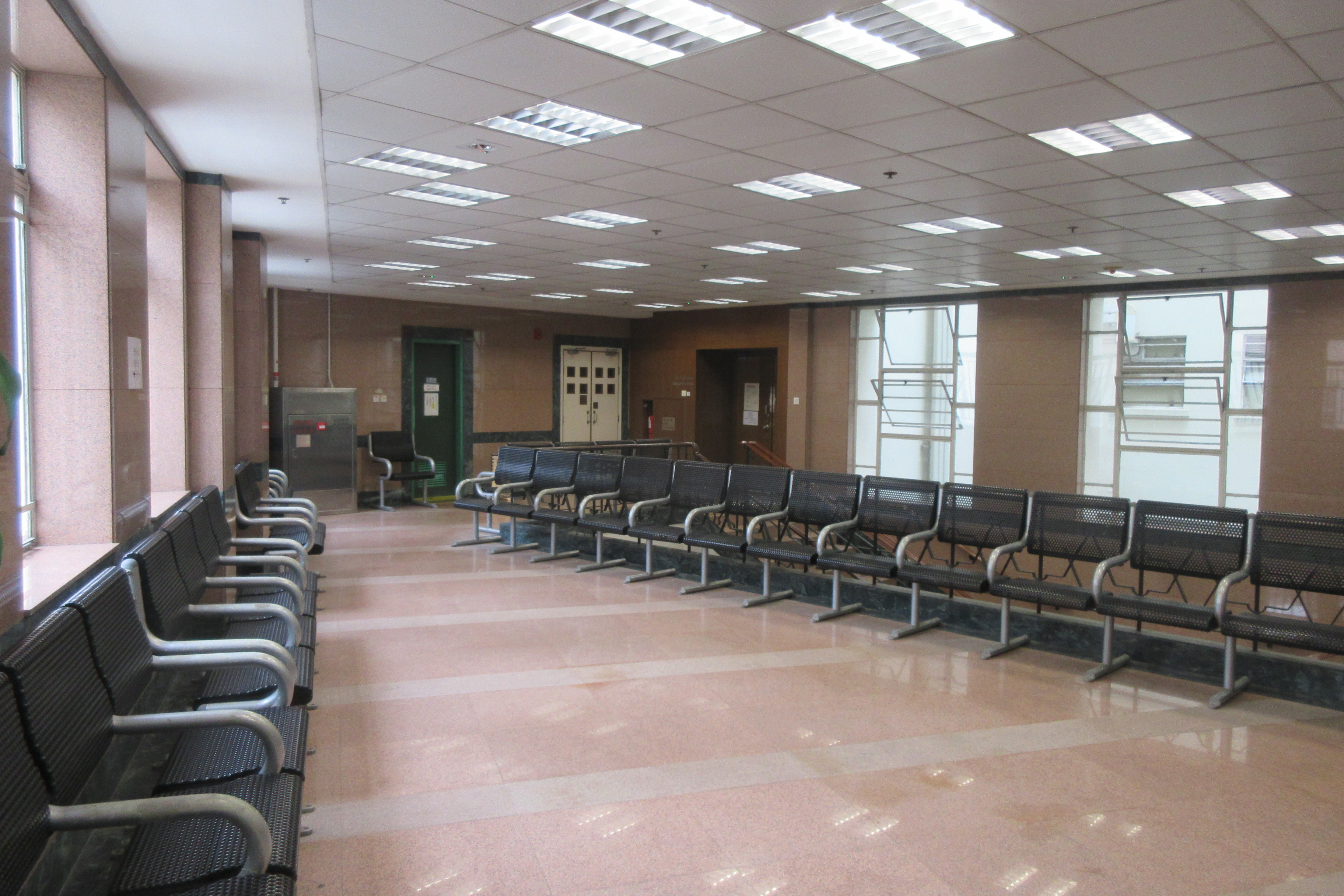 HK 西營盤 Sai Ying Pun 皇后大道西 2A Queen's Road West 西區裁判法院 Western Magistracy seats in January 2019